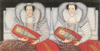 Lettice, Lady Grosvenor, and her sister, Mary, Lady Calverley, 1604